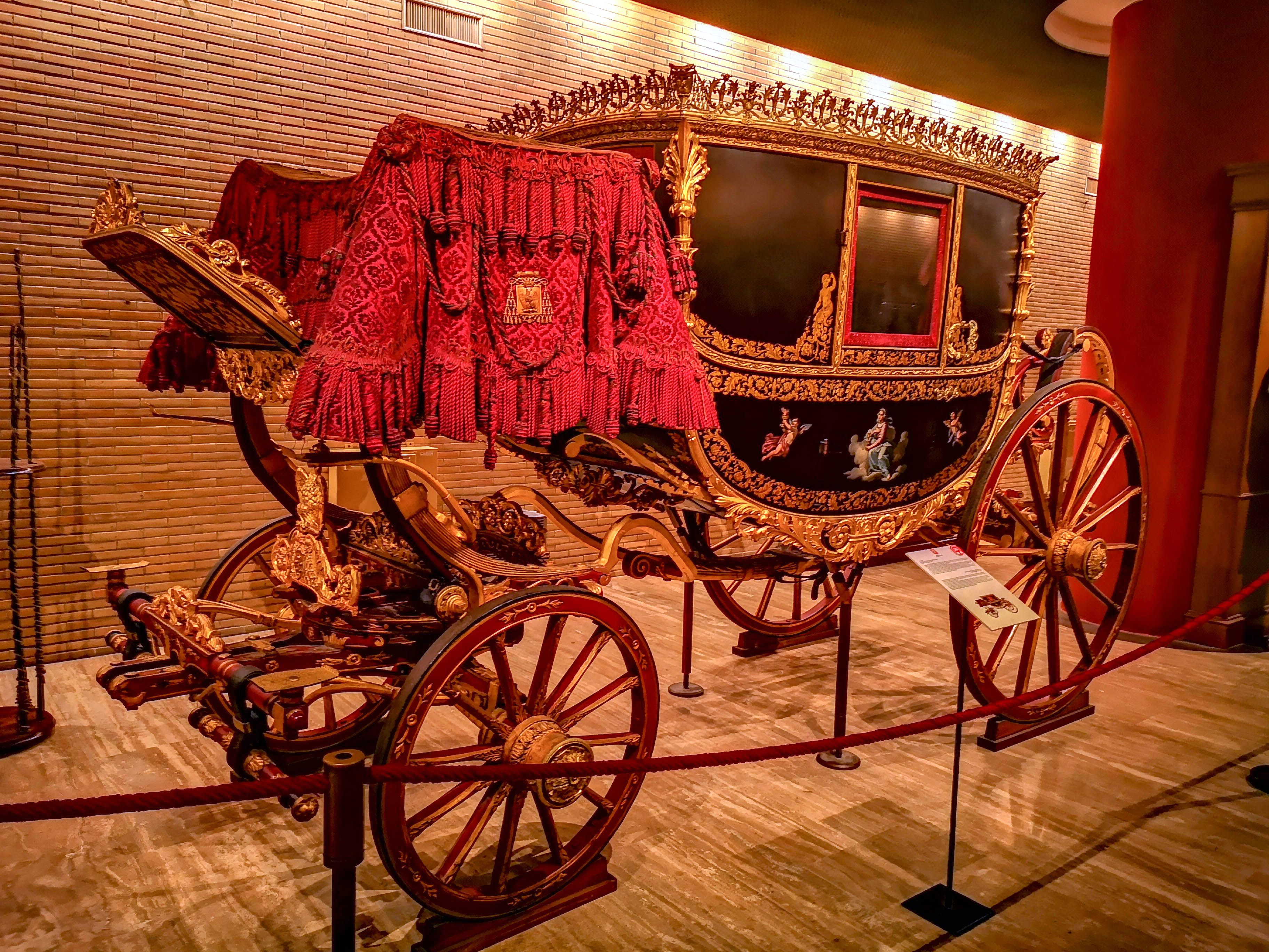 Berlin of Cardinal Luciano Luigi Bonaparte, Vatican museum, Vatican, Rome